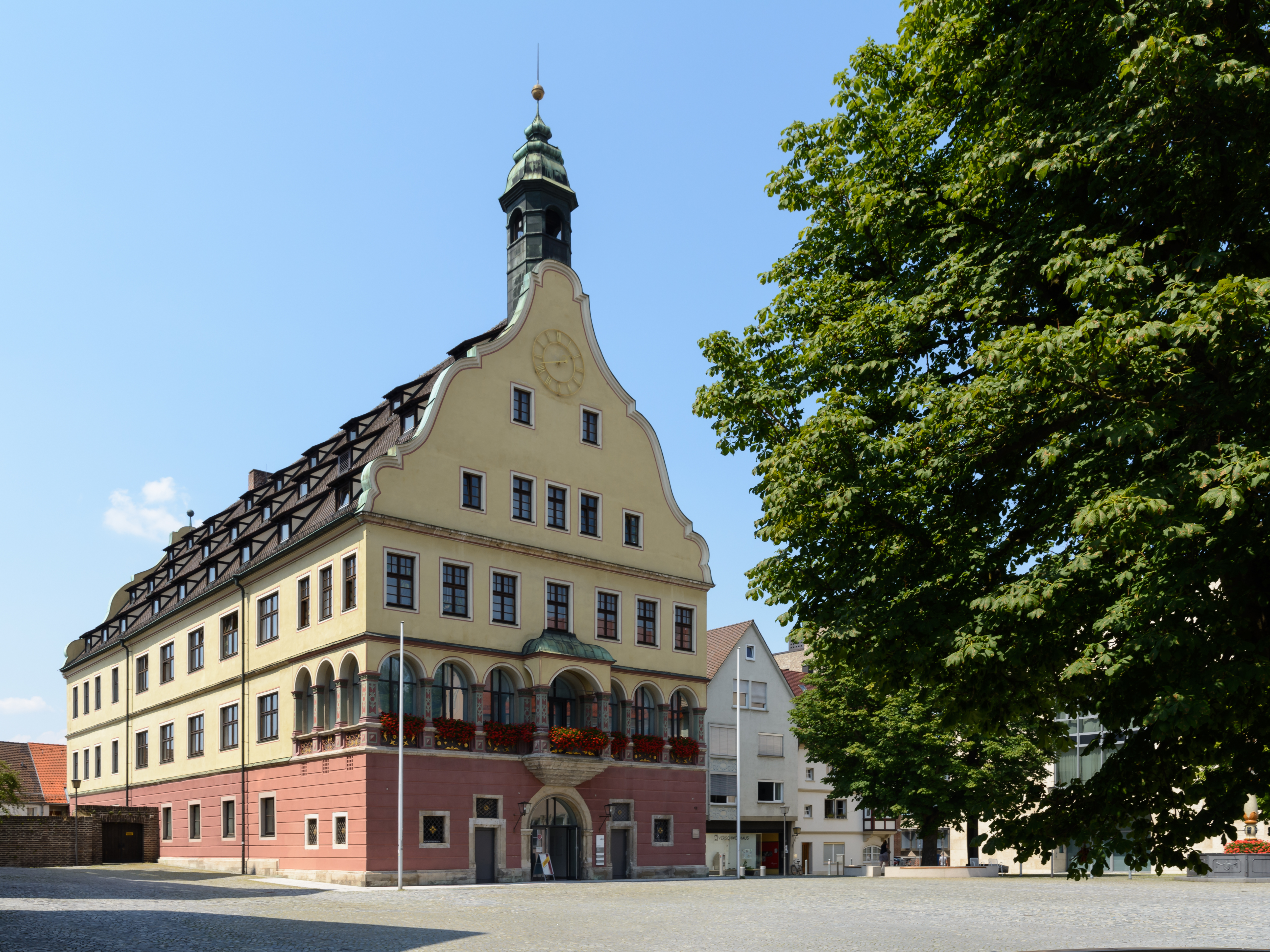 Schwörhaus (House of Oath) in Ulm, Baden-Württemberg, Germany